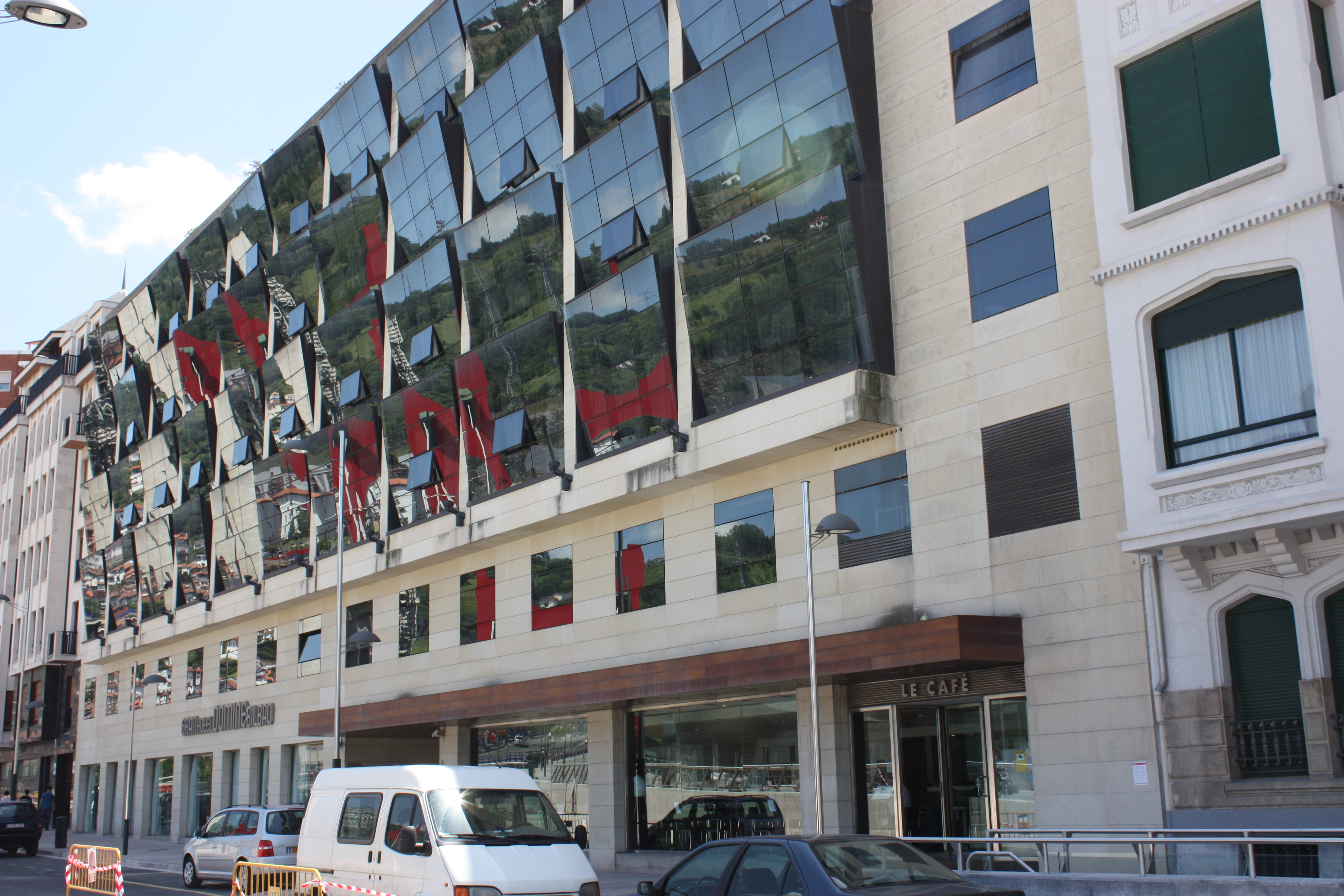 Silken Gran Hotel Domine Bilbao, Alameda Mazarredo, Bilbao, Biscay, Spain, July 2010